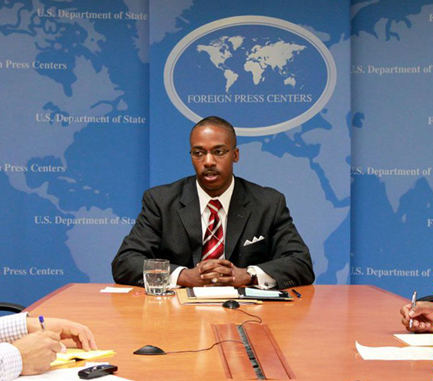 Dr. Reuben Brigety, United States Deputy Assistant Secretary, Bureau of Population, Refugees and Migration giving a briefing at the Washington Foreign Press Center.